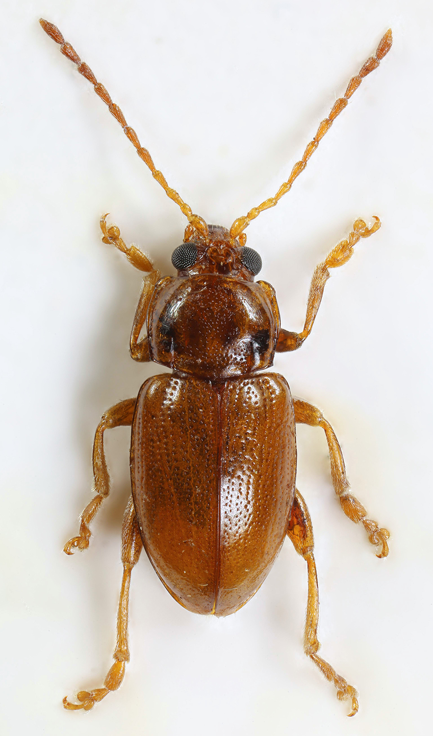 Neocrepidodera transversa, Trawscoed, North Wales, Oct 2015